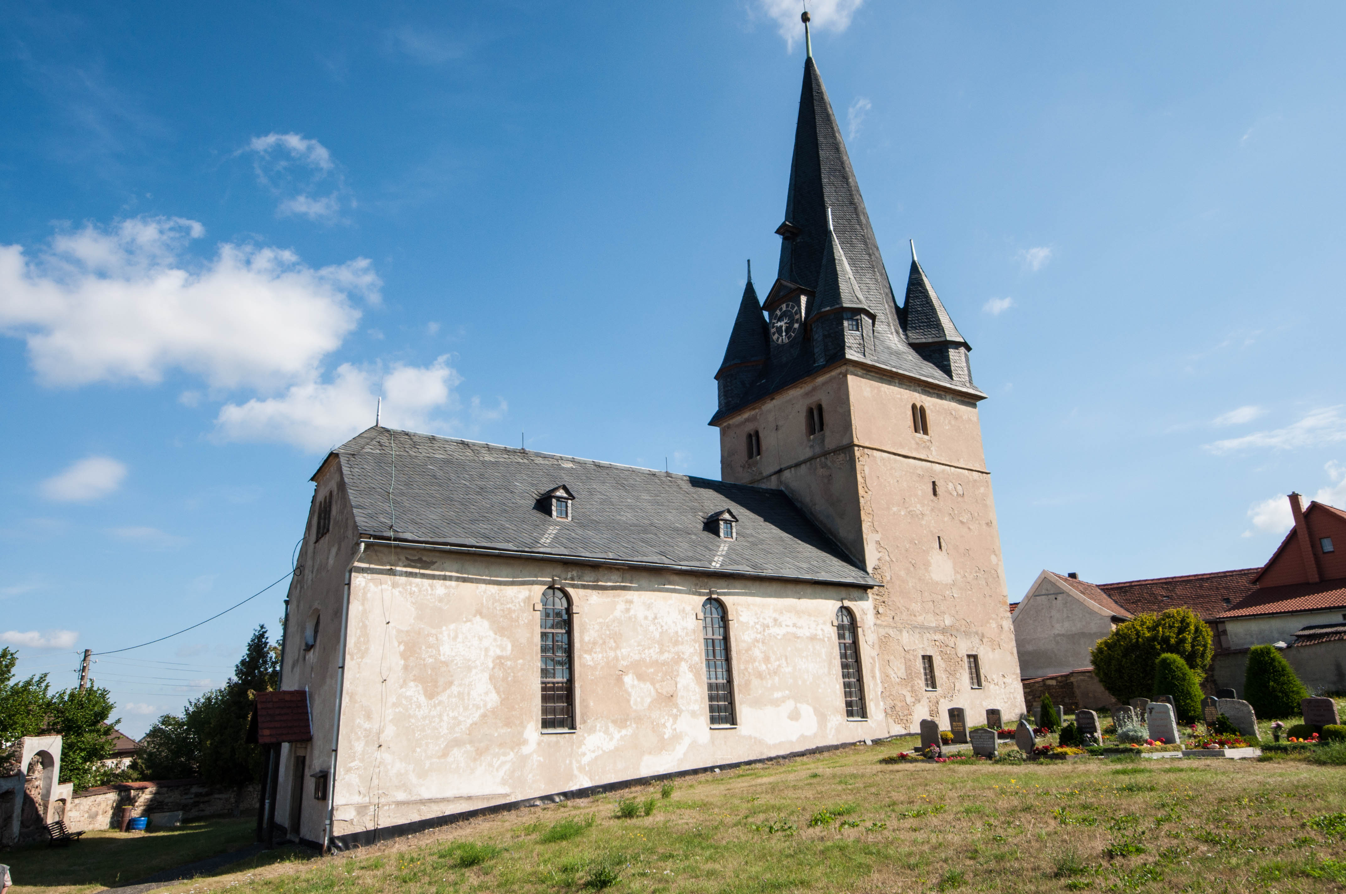 Exterior view of the St.Nikolaus church of Weira.